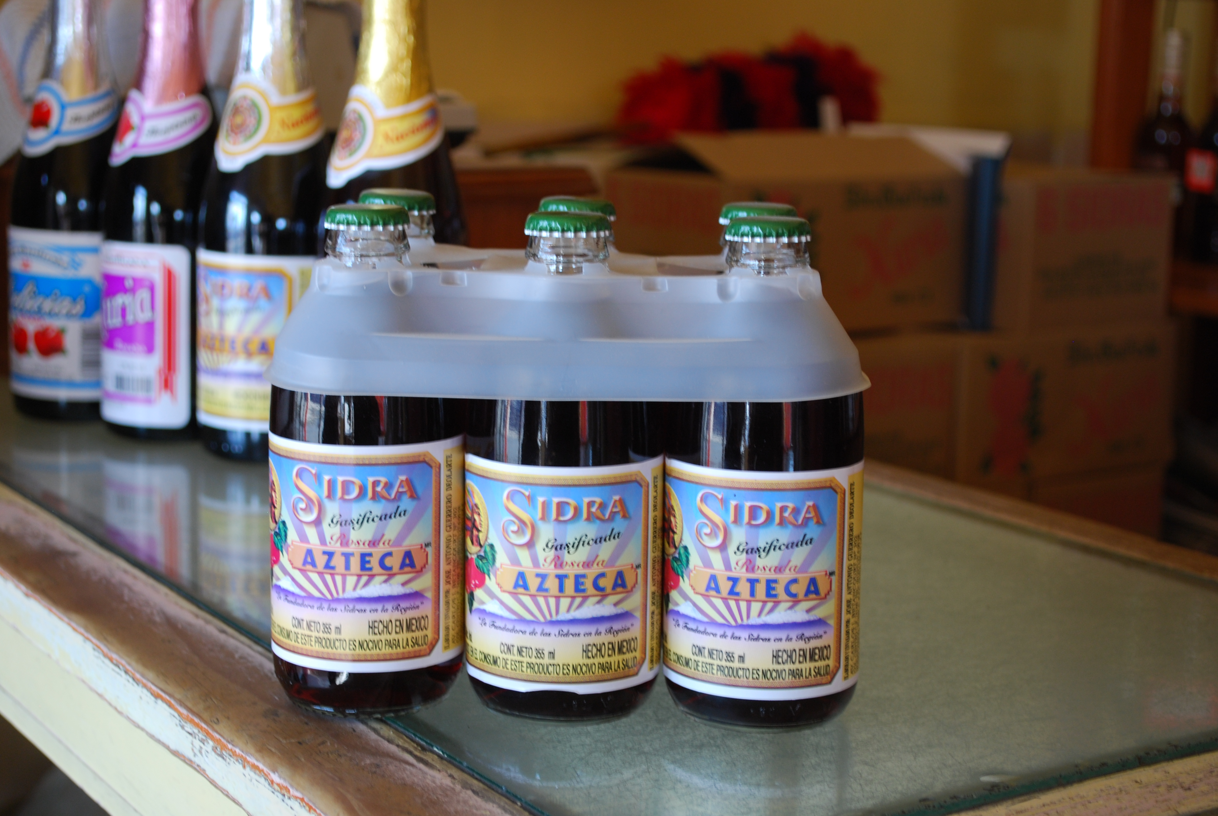 Cider sold in a six pack in Huejotzingo, Puebla, Mexico